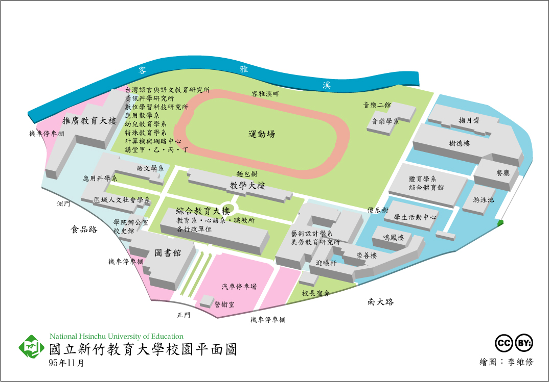 國立新竹教育大學平面圖 (The Map of National Hsinchu University of Education)